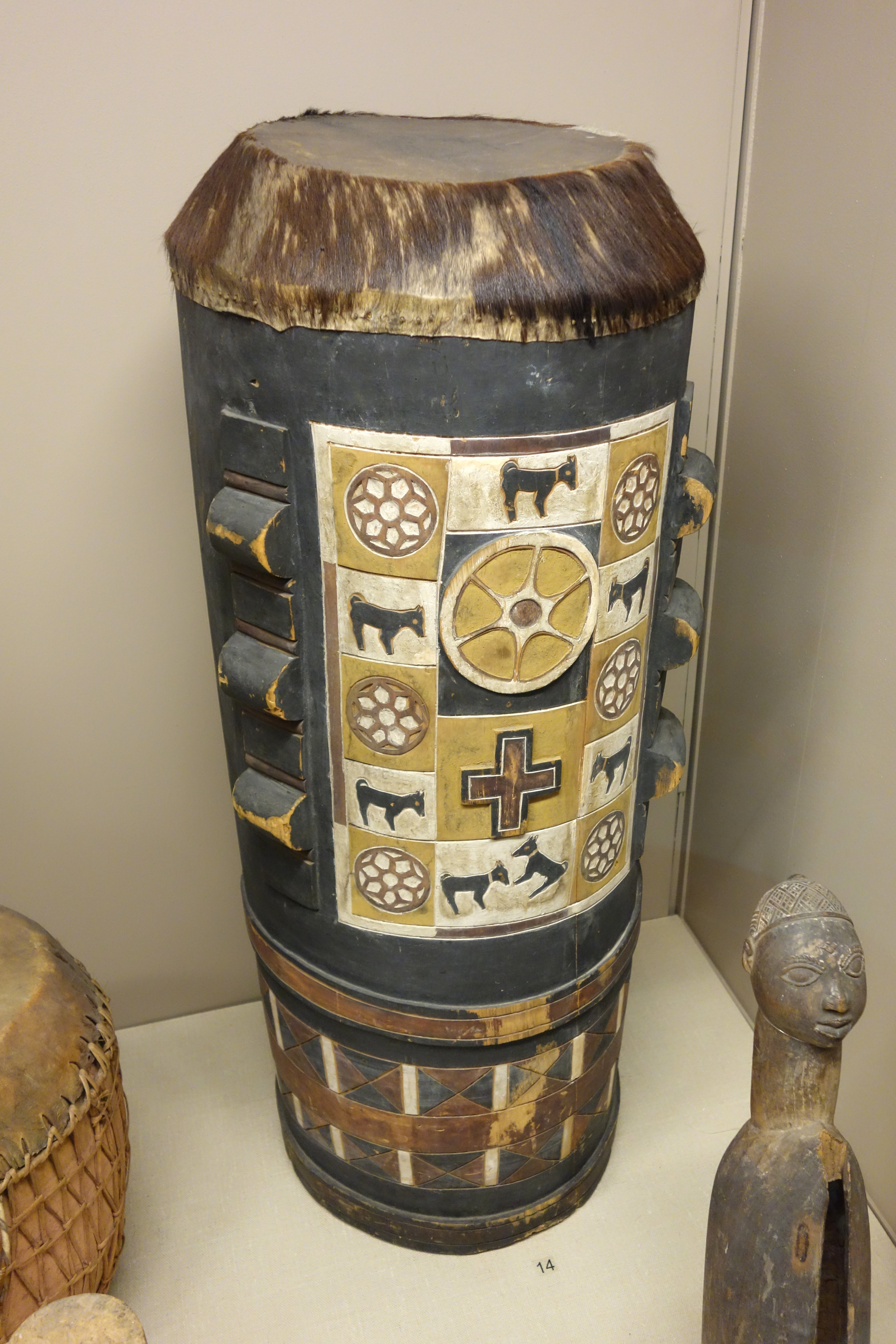 Exhibit in the Royal Museum for Central Africa, Tervuren, Belgium. This object is old enough so that it is in the public domain.